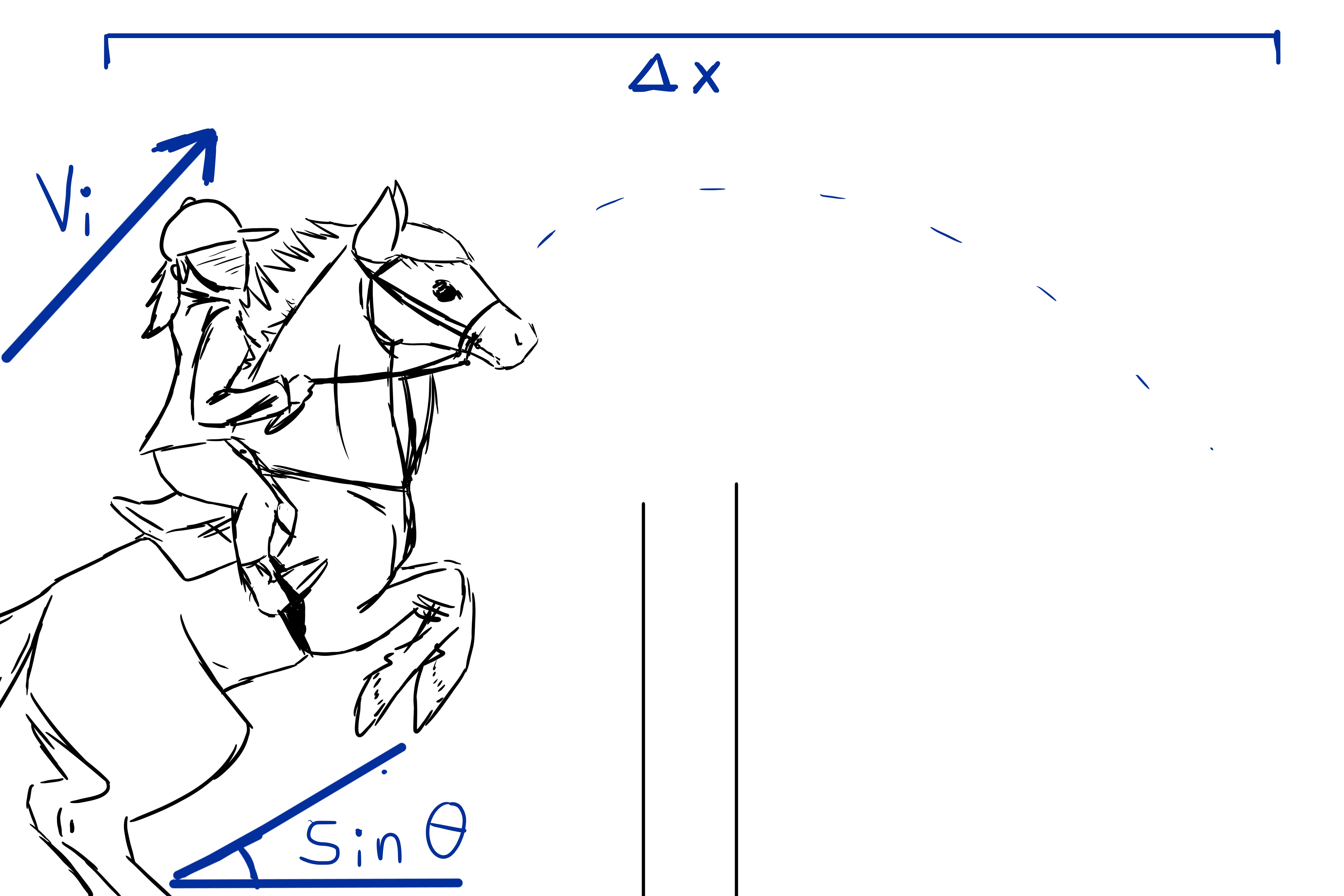 For using the trajectory equation in the case of a show jumper. This diagram displays the necessary information in visual form.